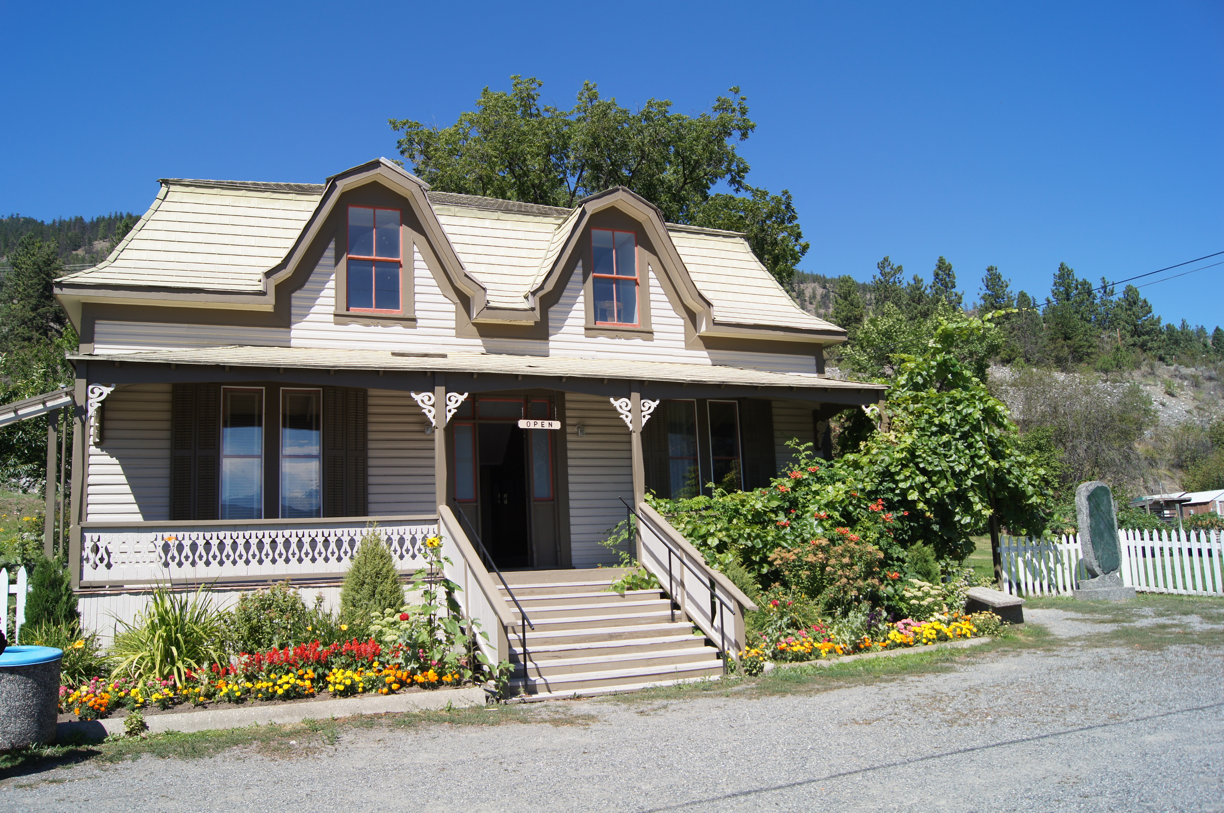 The Miyazaki Home in Lillooet, British Columbia (August 2012).